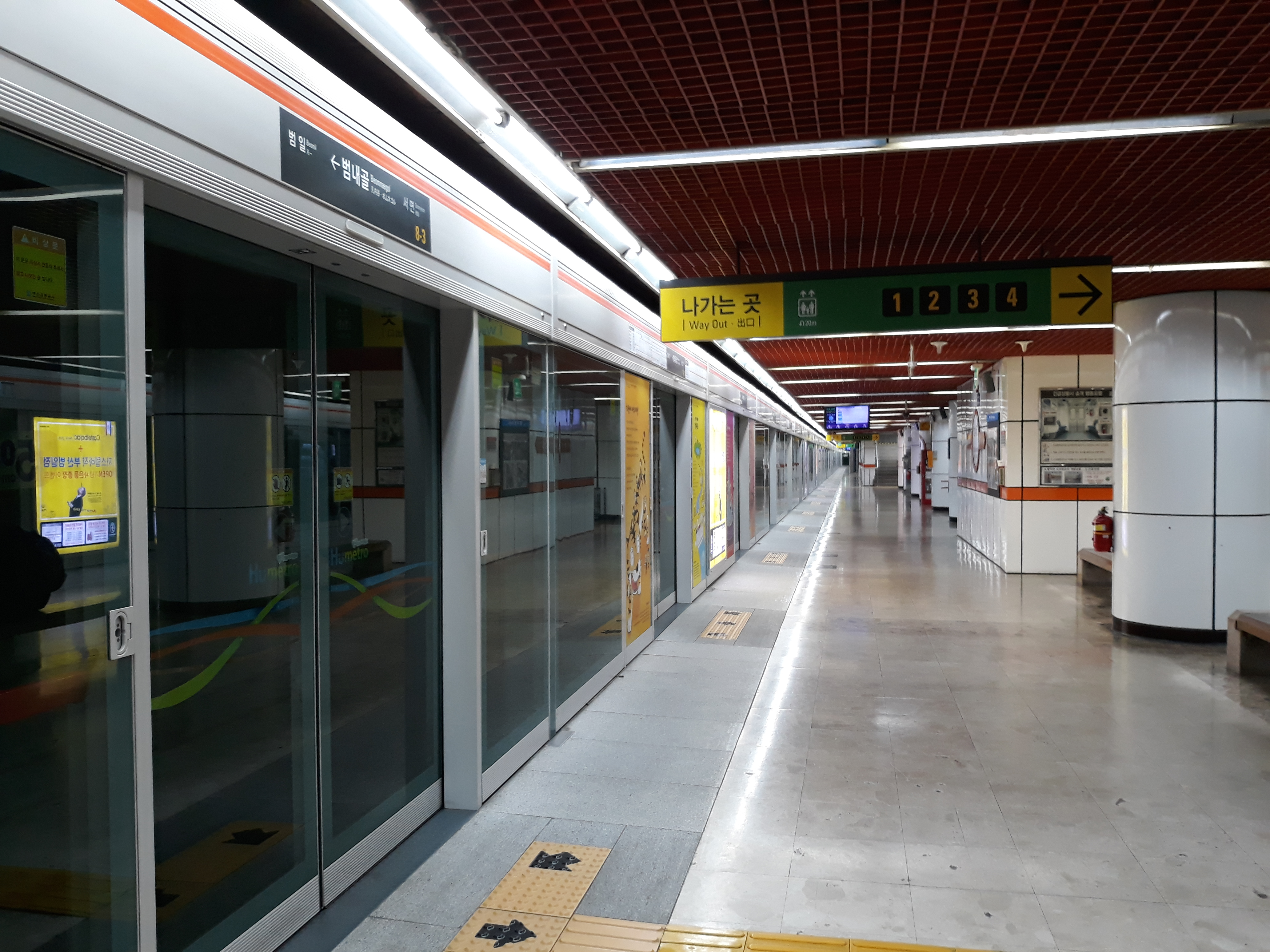 The platform at Beomnaegol station on the Busan metro line 1